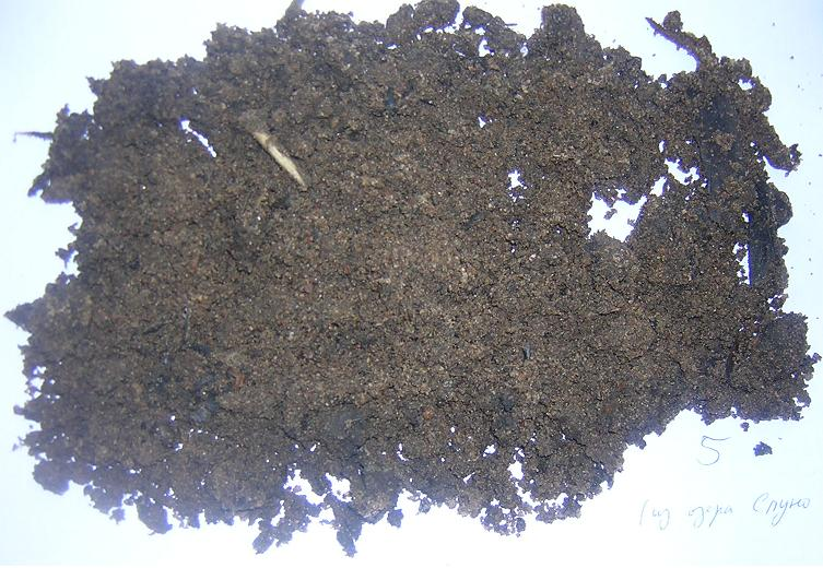 Sediment sand, small river Novrogod region